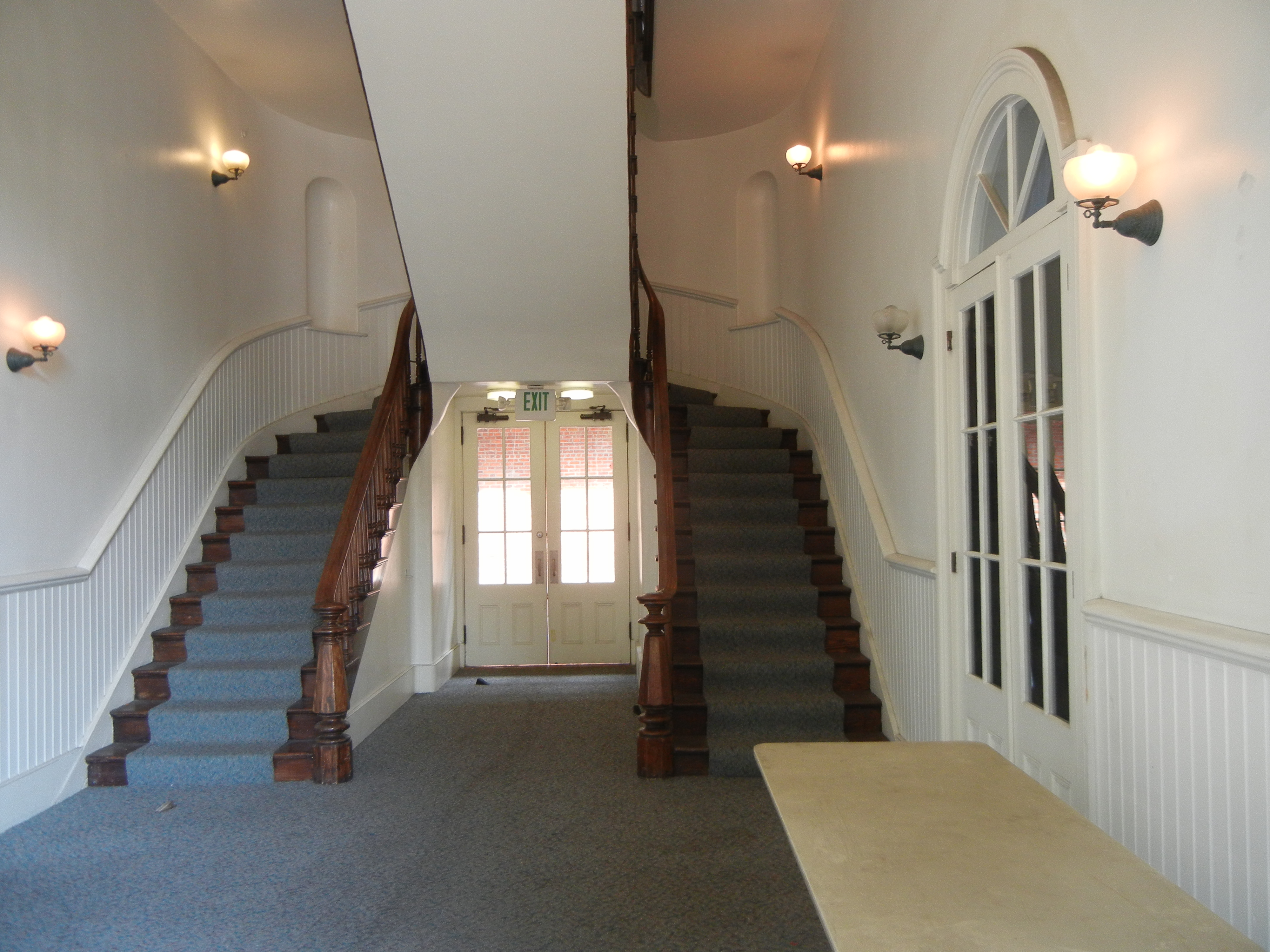 This picture was taken from outside, through the front door window of the hotel and shows the main entry hall and stairs that arriving guests would have seen. Some remodeling and refurbishment was completed some years before this picture was taken.